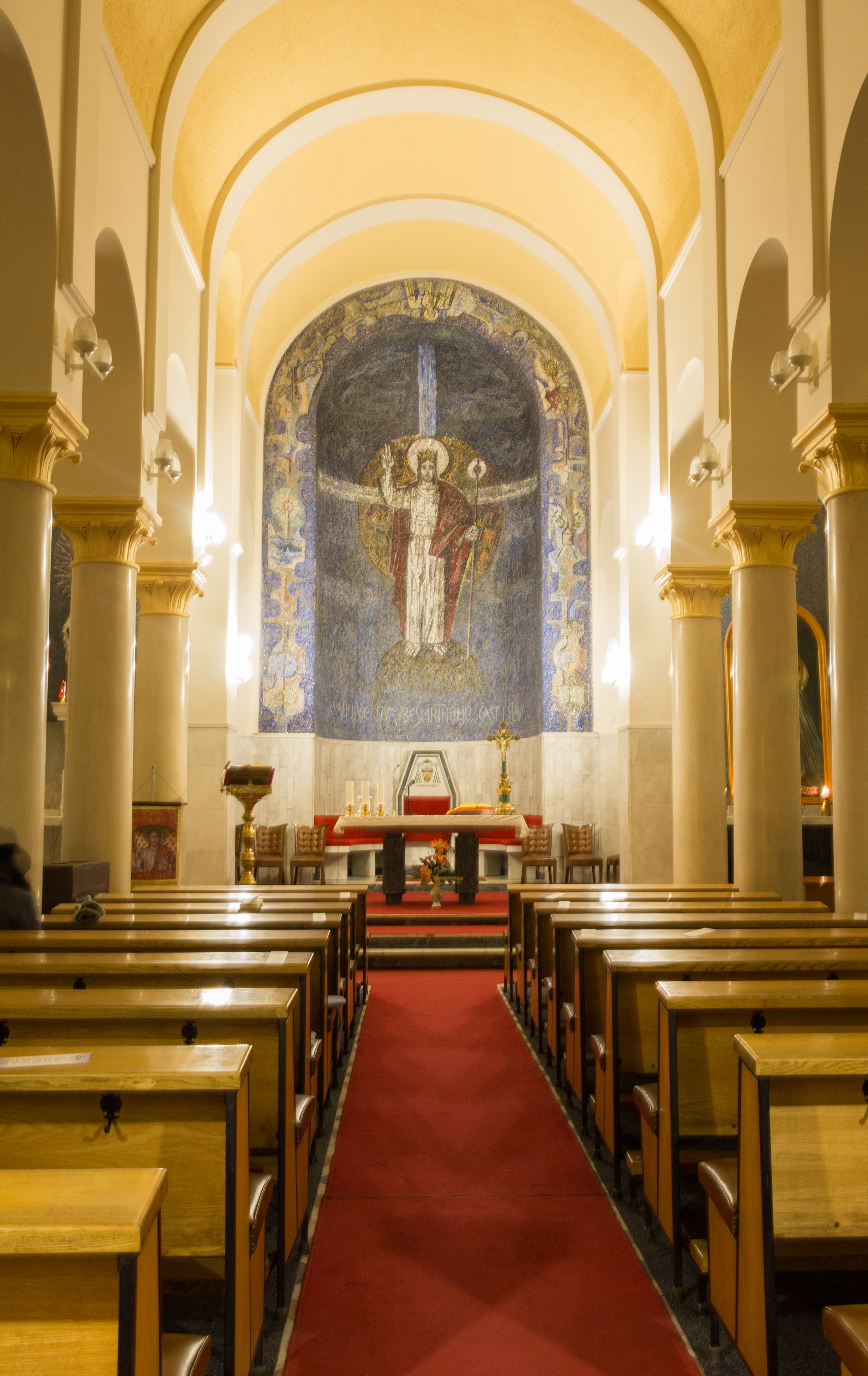 Interior of the Christ the King Catholic church in Belgrade, Serbia